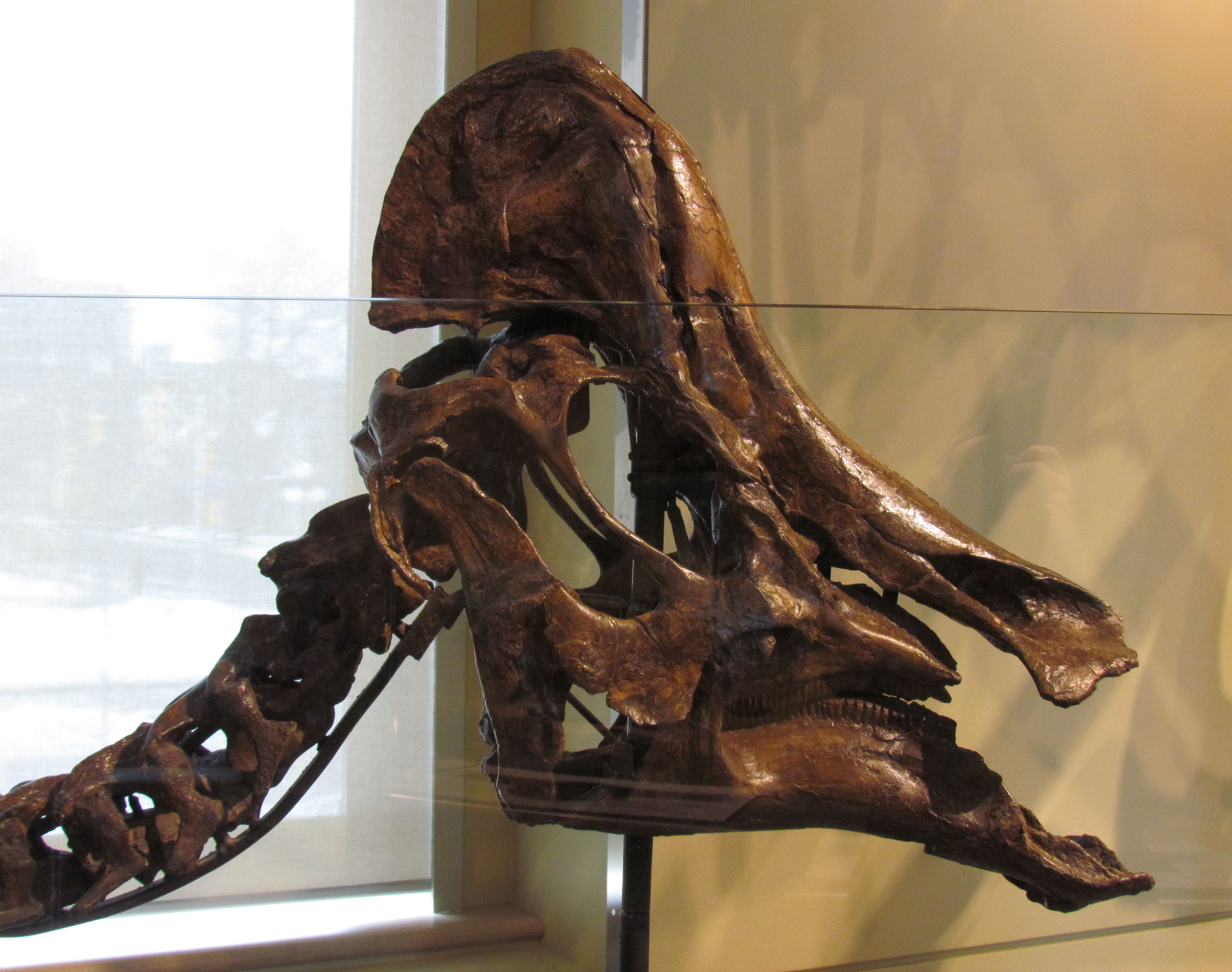 Hypacrosaurus altispinus, skull, Canadian Museum of Nature, Ottawa, Ontario, Canada